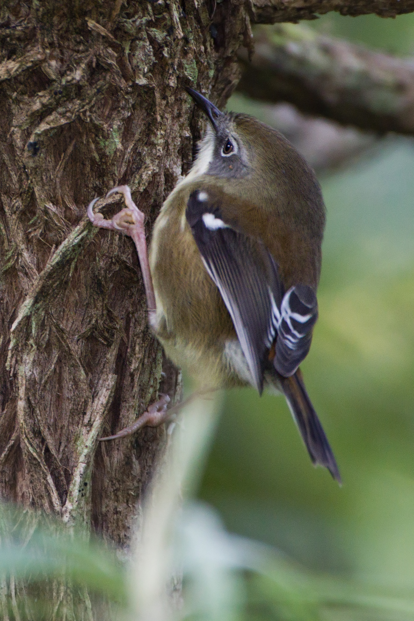 Scrubtit (Acanthornis magna), Myrtle Forest, Collinsvale, Tasmania, Australia